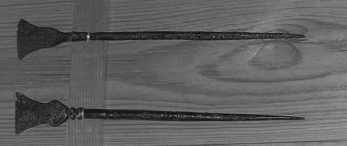 Style pour écrire sur écorce de bambou - Russie 13° siècle